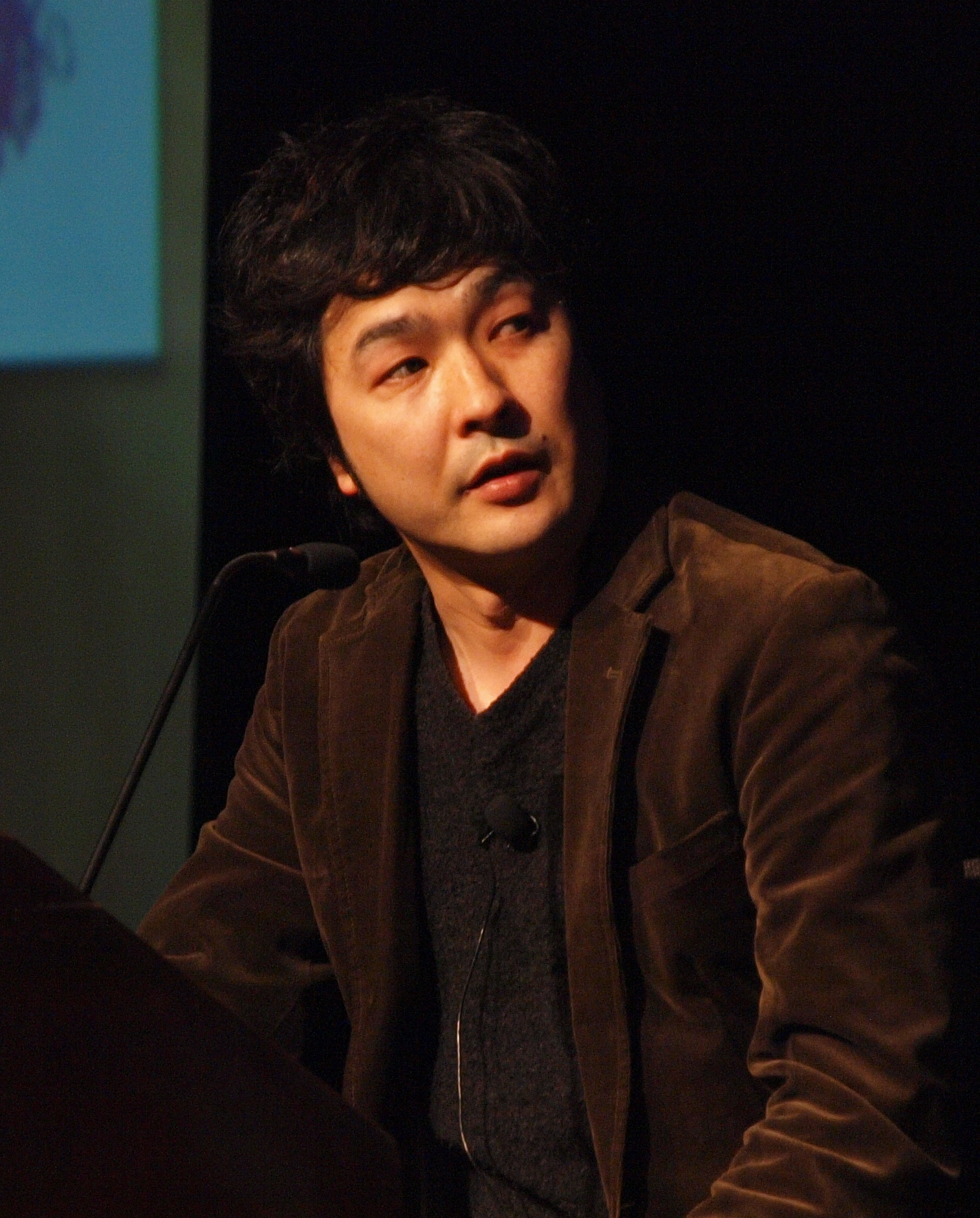 Motomu Toriyama at the Game Developers Conference in 2010 (fourth day), speaking at "The Crystal mythod and Final Fantasy XIII".